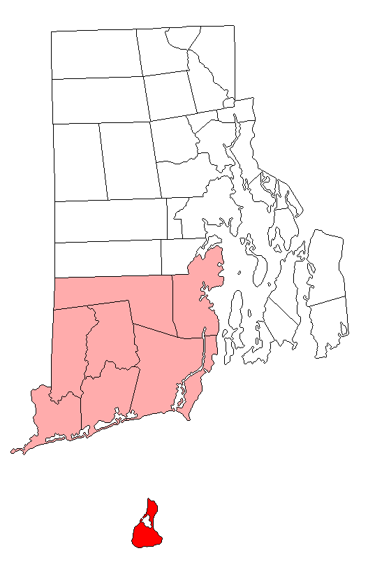 Locator map of New Shoreham — on Block Island, in Washington County, Rhode Island.